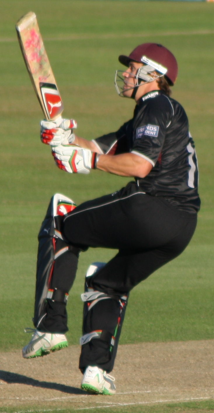 Nick Compton batting for Somerset against Essex in a FPt20 match at the County Ground, Taunton.